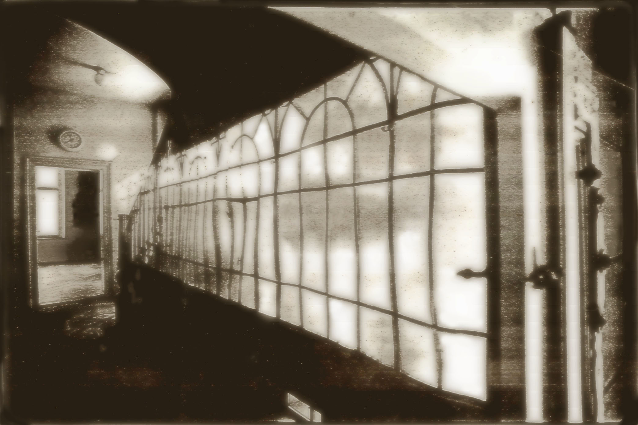 sanatorium bellevue kreuzlingen,glass pavillion 1